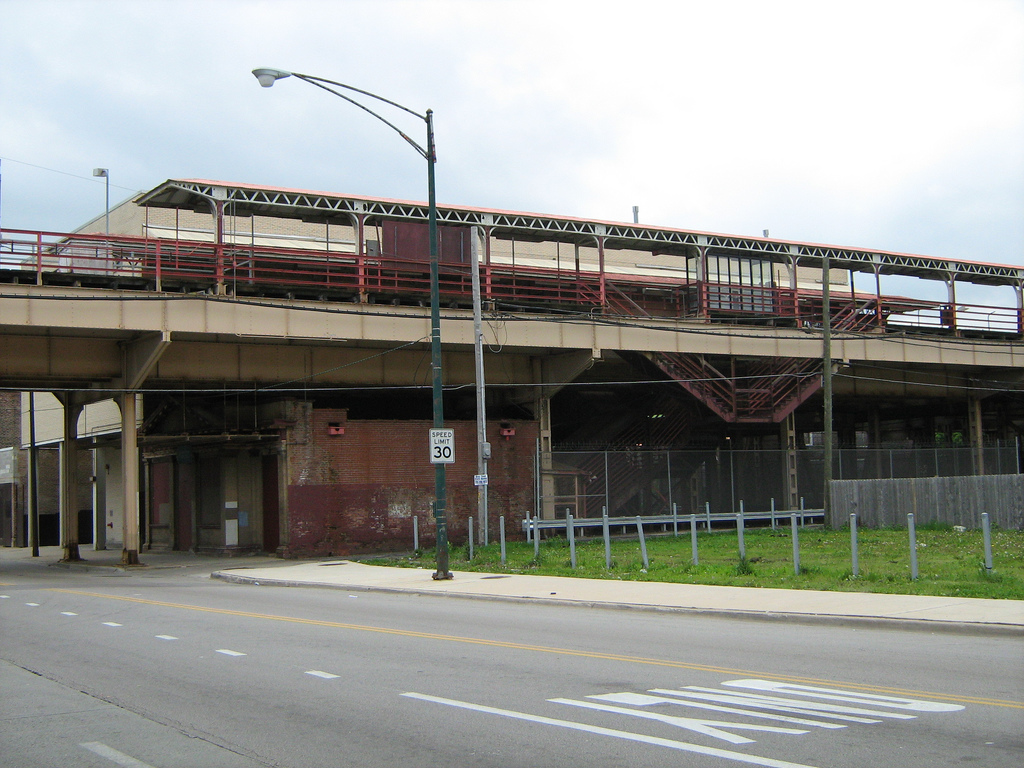 Abandoned Racine CTA Green Line